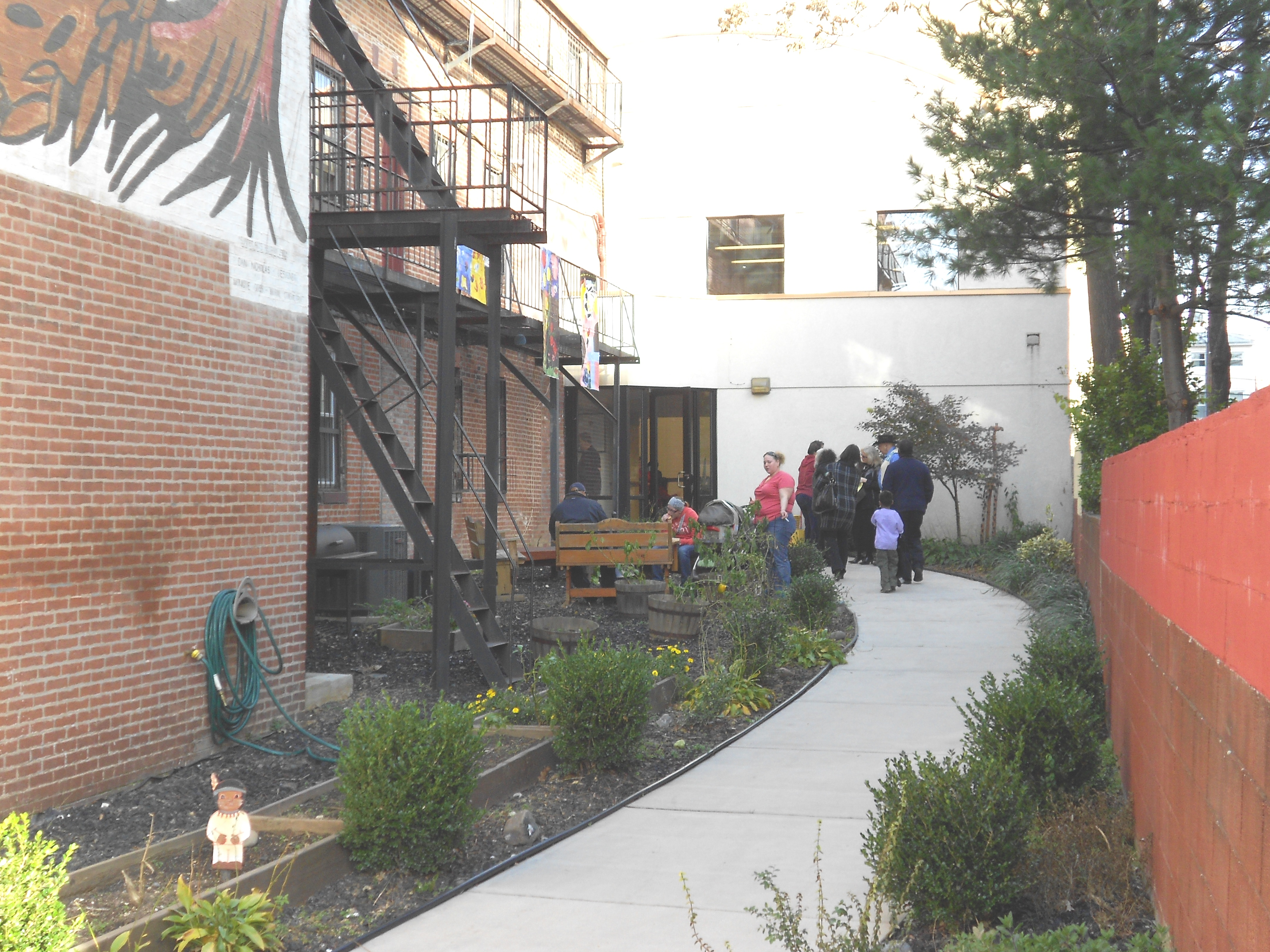 Walkway through the garden to the main entrance, along the side of the Baltimore American Indian Center